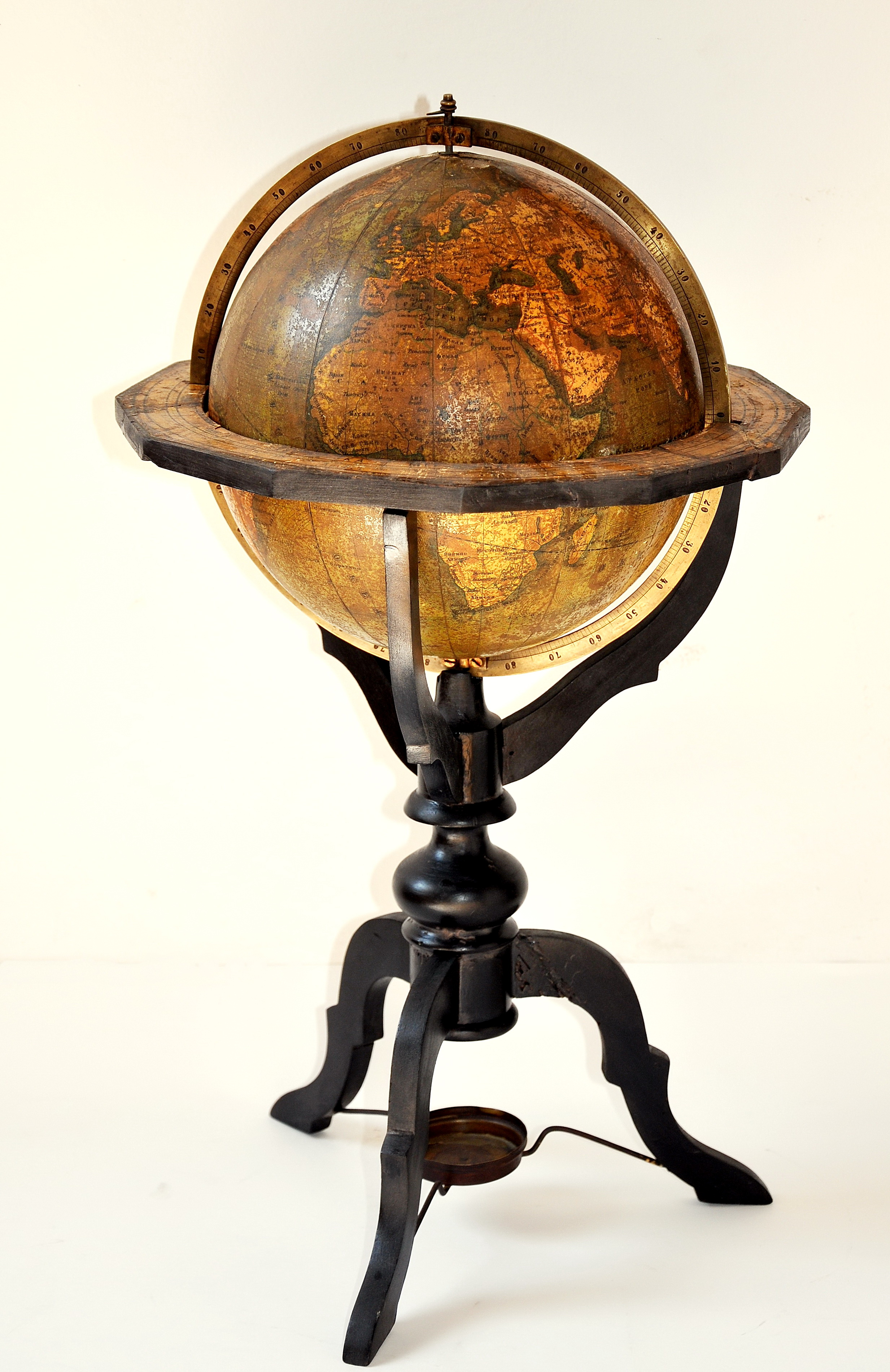 Globe made by Jan Felkl in 1875. Now it is located in Museum of Science and Technology Belgrade.